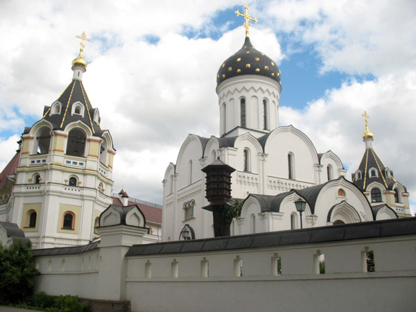 Church of St Elizabeth Convent, Minsk